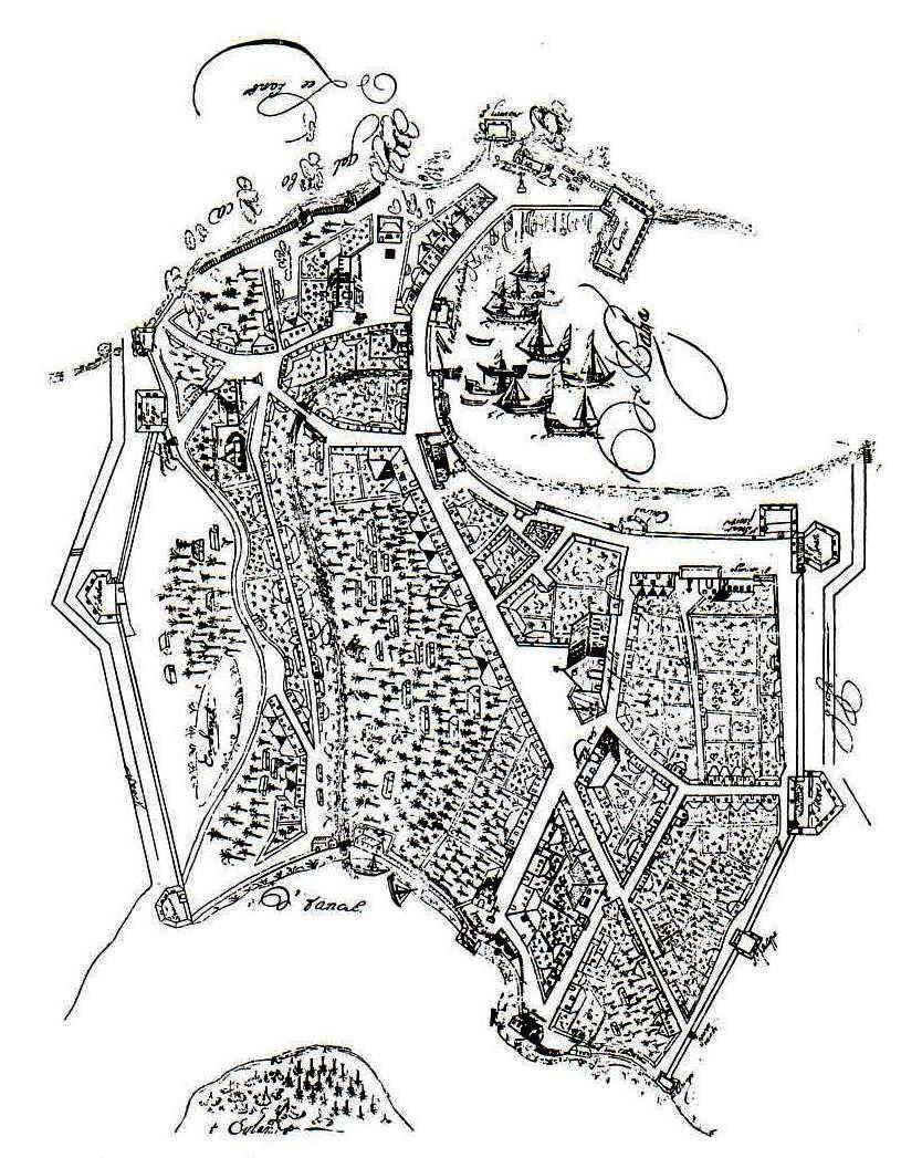 An anonymous depiction of the Portuguese fortress of Santa Bárbara de Colombo in 1650